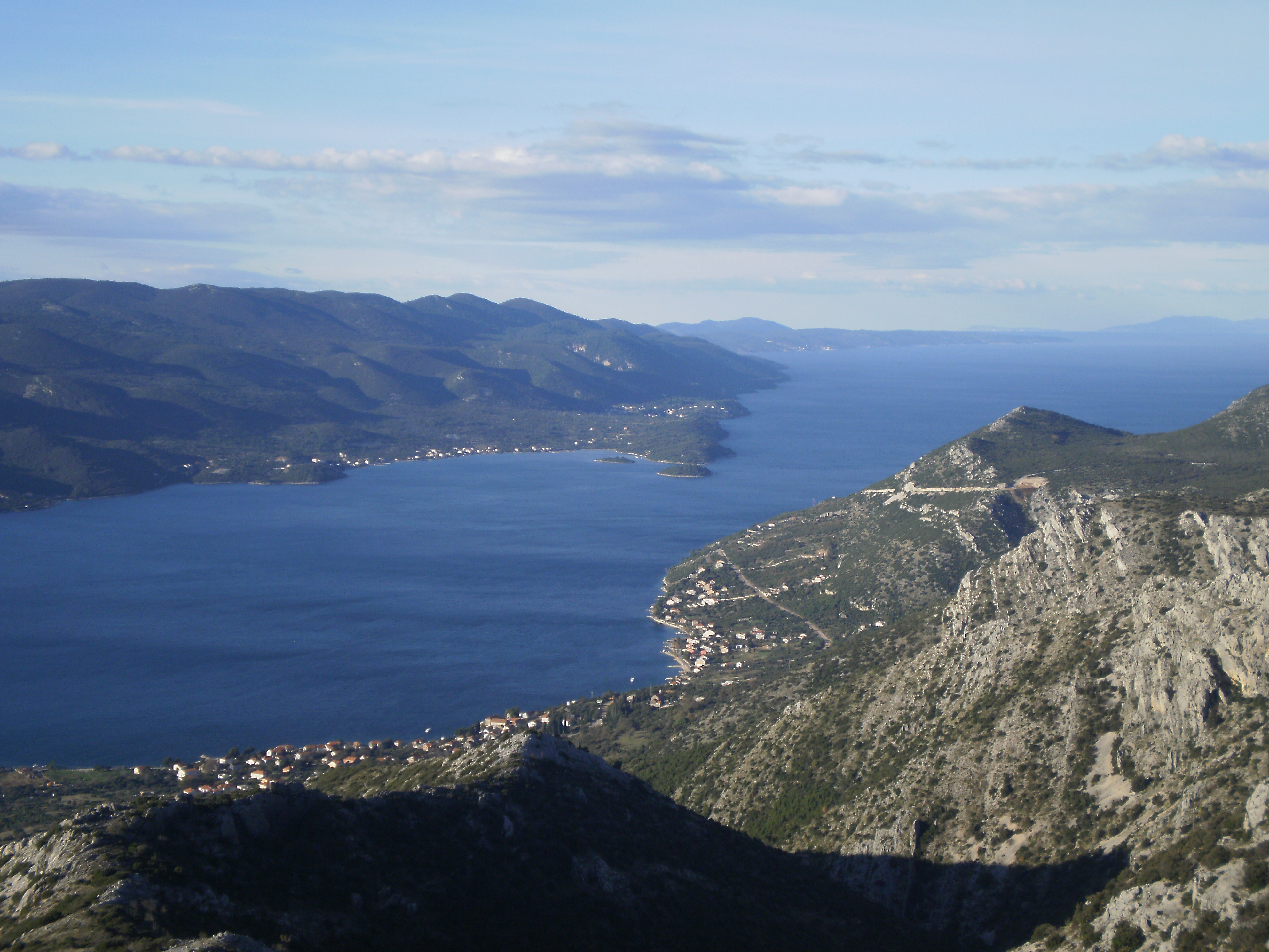 Pelješac channel